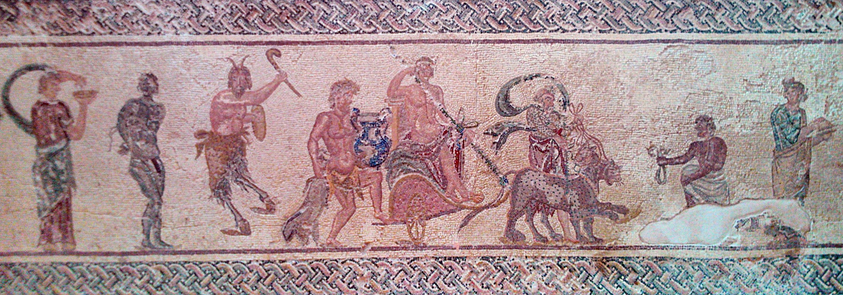 Mosaic in the House of Dionysos in Paphos, Cyprus.